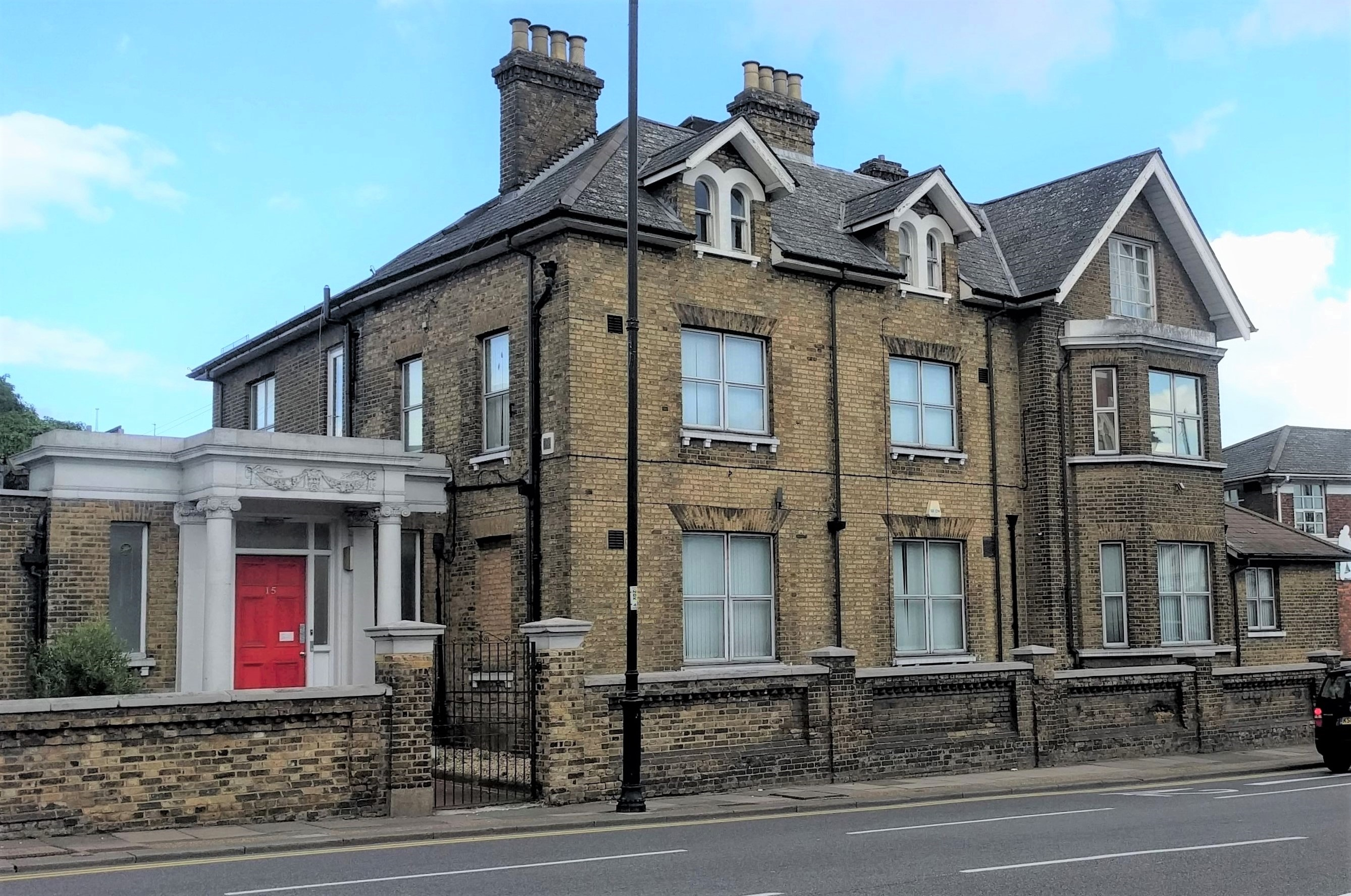 Elm House, New Road, Chatham, Kent. Technical School for Girls from 1926 to 1929 when moved to nearby Fort Pitt.